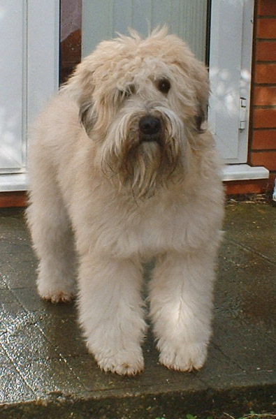 A 3½ year old Soft-coated Wheaten Terrier named Clio.